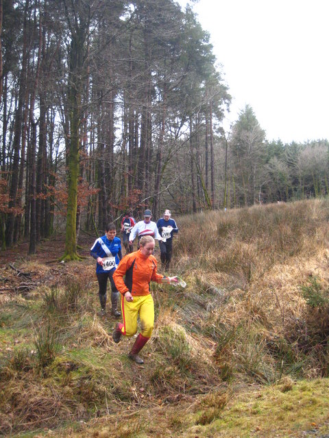 Orienteers on the edge of the forest Competitors during Day 2 of the 2010 JK International Orienteering Festival in Cookworthy Forest.